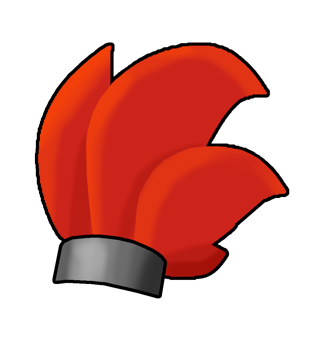 Dry Bowser's hair simplified.